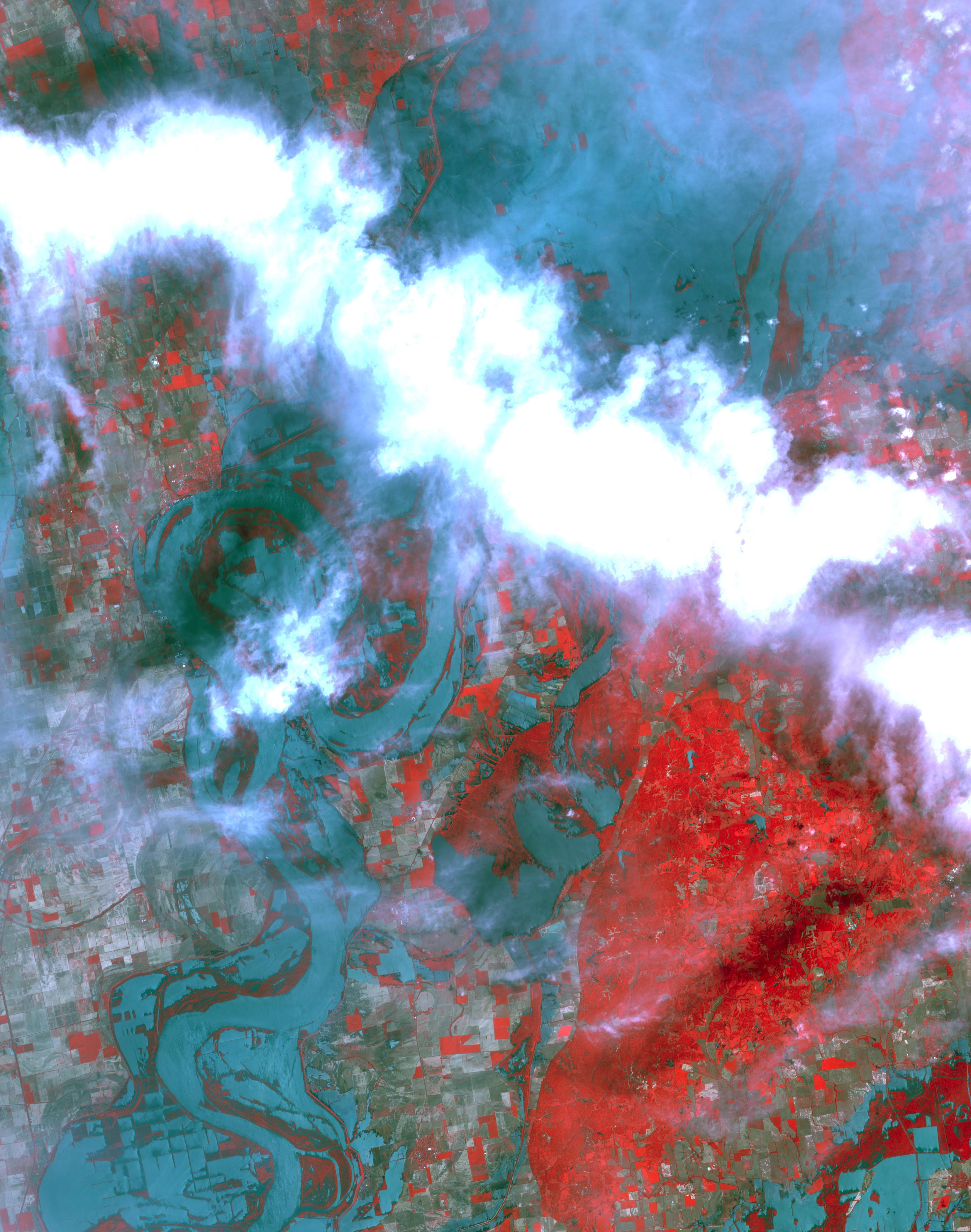 The U.S. Army Corps of Engineers detonated explosives at the Birds Point levee near Wyatt, Missouri, at 10:02 p.m. on May 2, 2011. Water from the intentional breach flooded a 130,000-acre stretch of land. Two more breaches were detonated on May 3 and 5. This image shows the resultant flooding of farmland west of the Mississippi 32 kilometres south of the levee breach. On the image, vegetation is displayed in red, bare fields in gray and water in blue. The image covers an area of 49.5 by 63 kilometres.